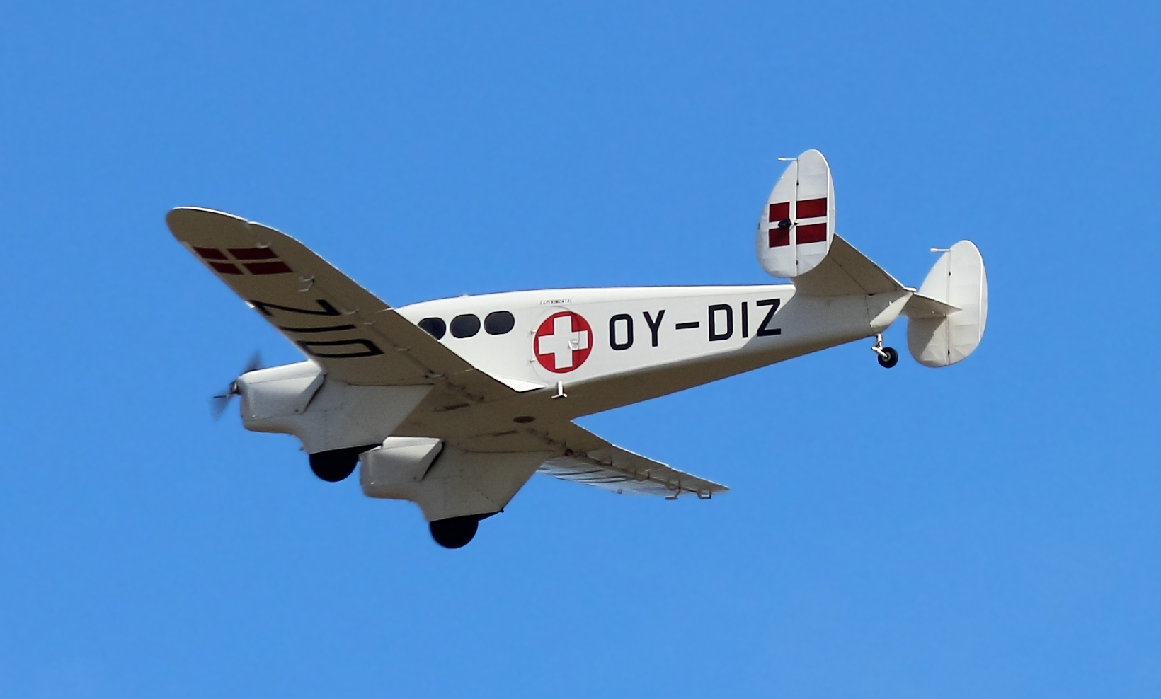 KZ IV in flight at Danish Air Show 2014